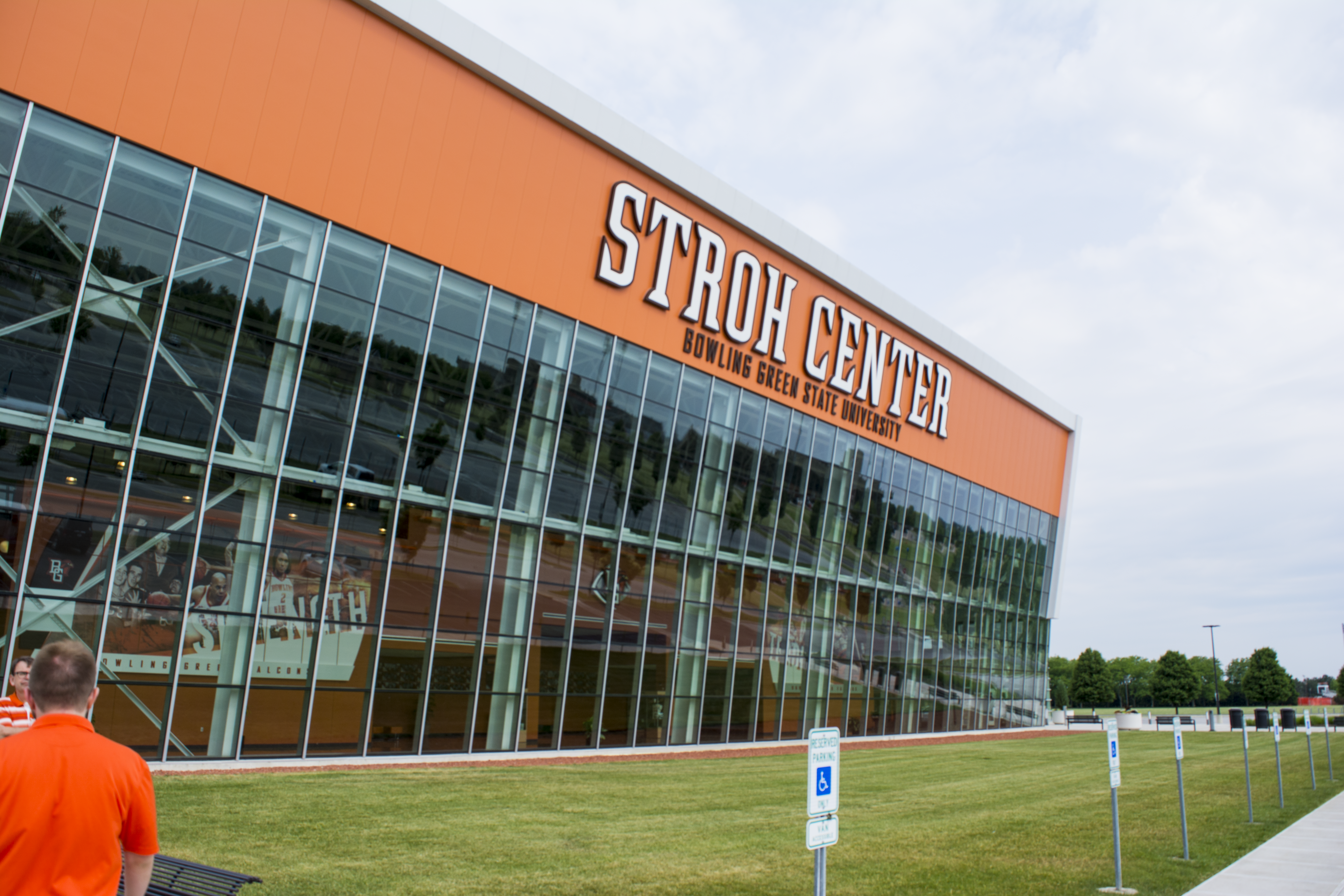 An up close image of the Stroh Center